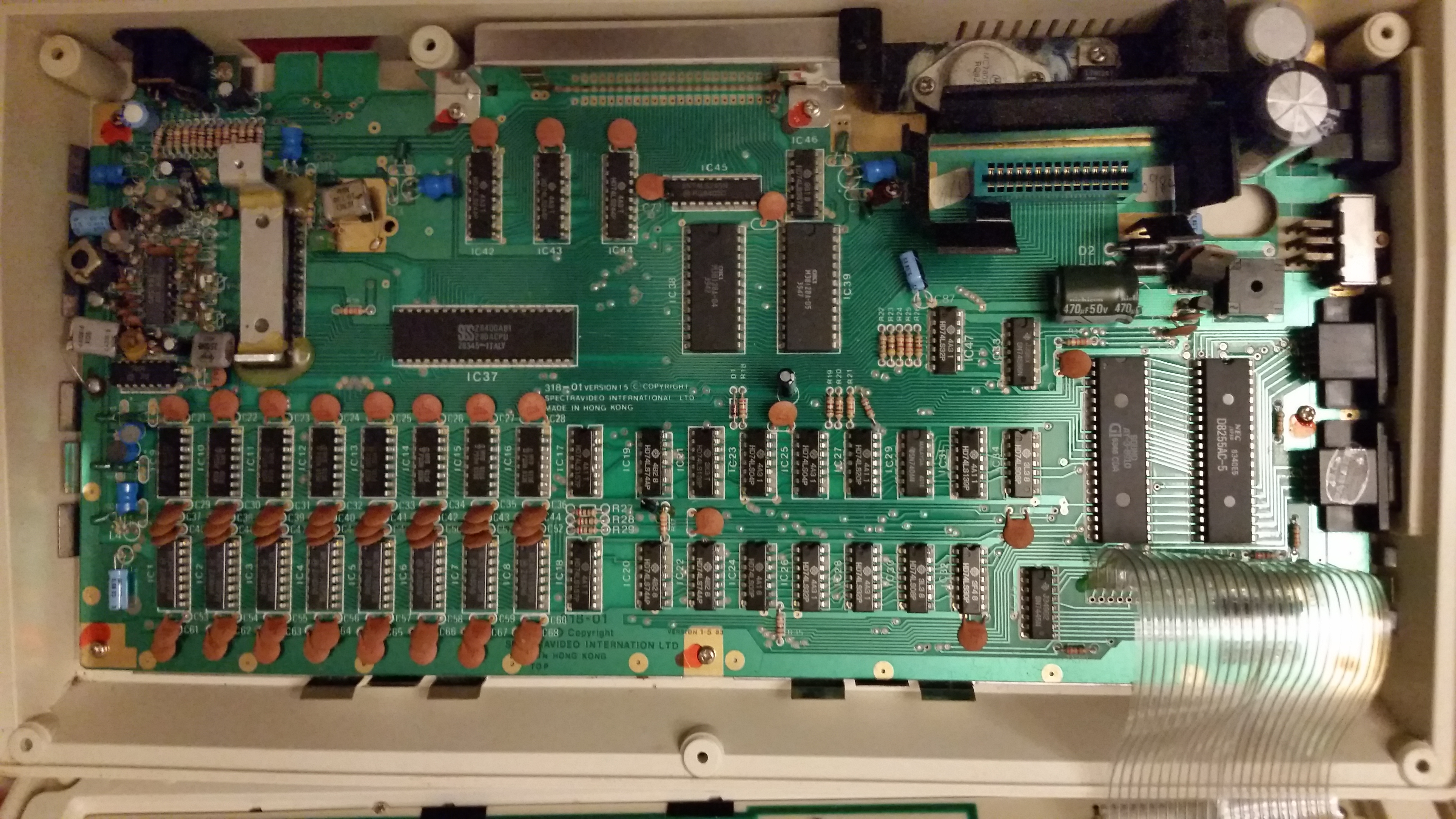 Spectravideo SV-318 computer's motherboard.